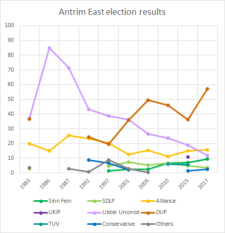 East Antrim election results